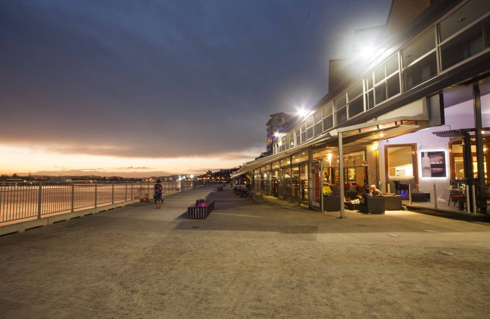 River walkway out front of Belvedere at Portside Wharf